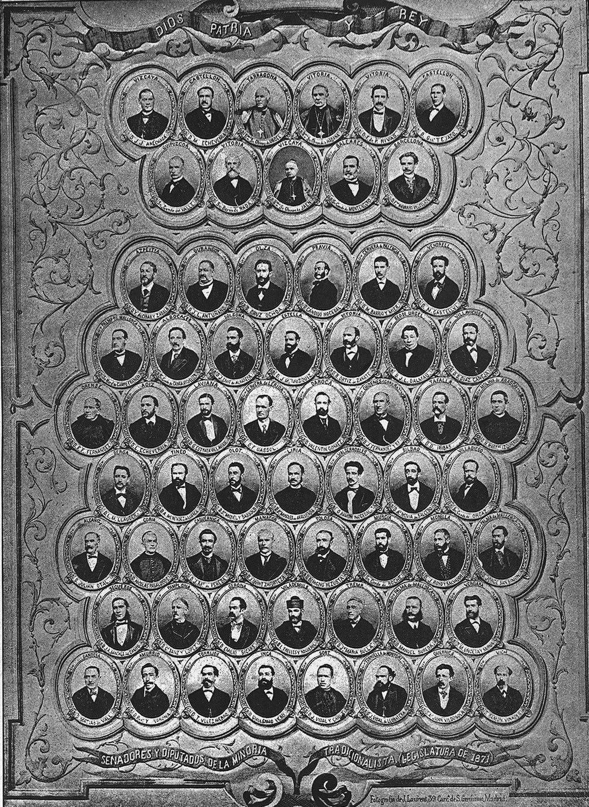 Carlist senators and deputies elected in 1871 as pictured on a propaganda postcard